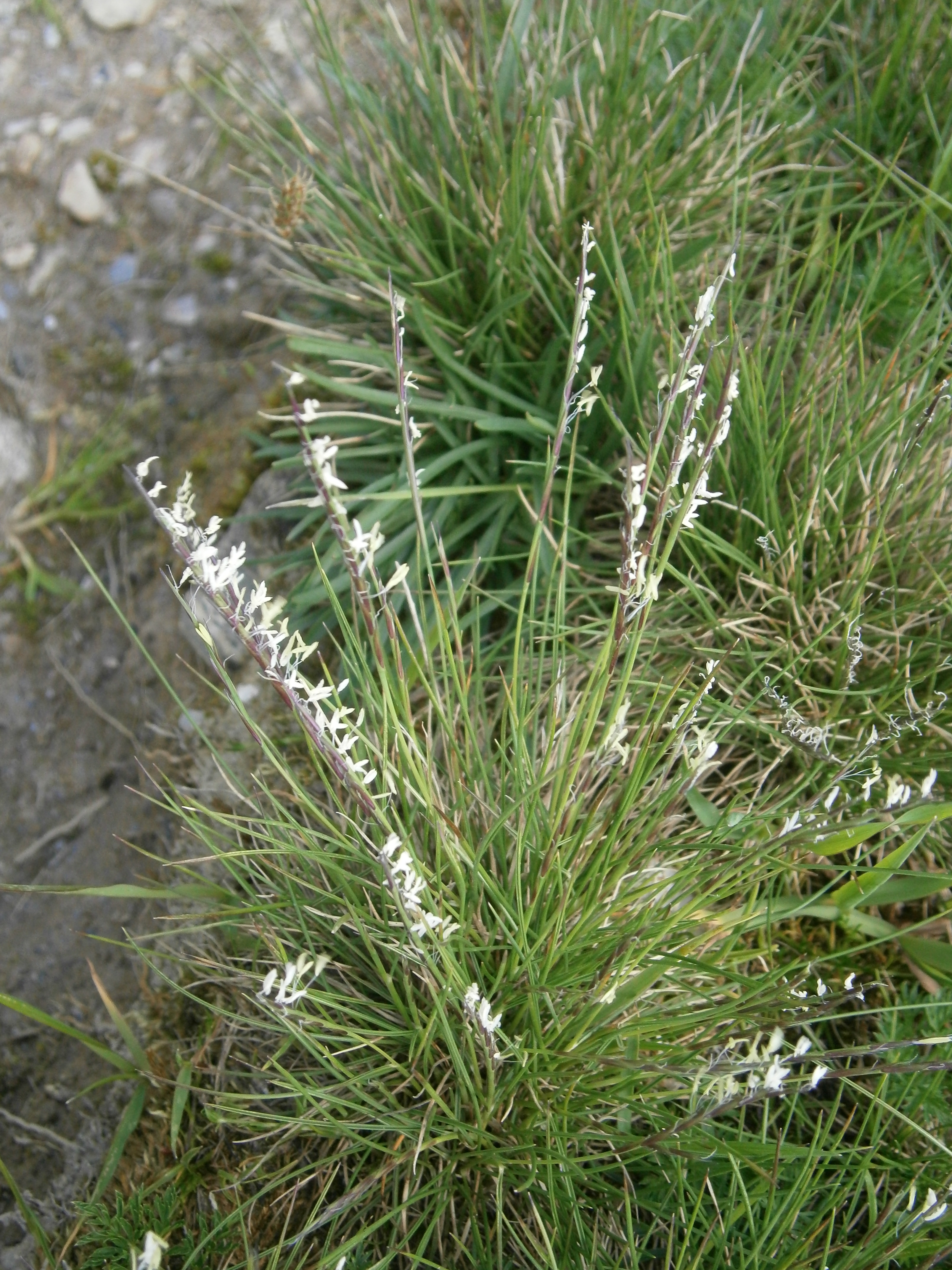 Nardus stricta